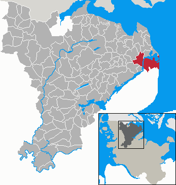 This map shows the area of the town (municipality) Kappeln in the Kreis (district) Schleswig-Flensburg, Schleswig-Holstein, Germany.